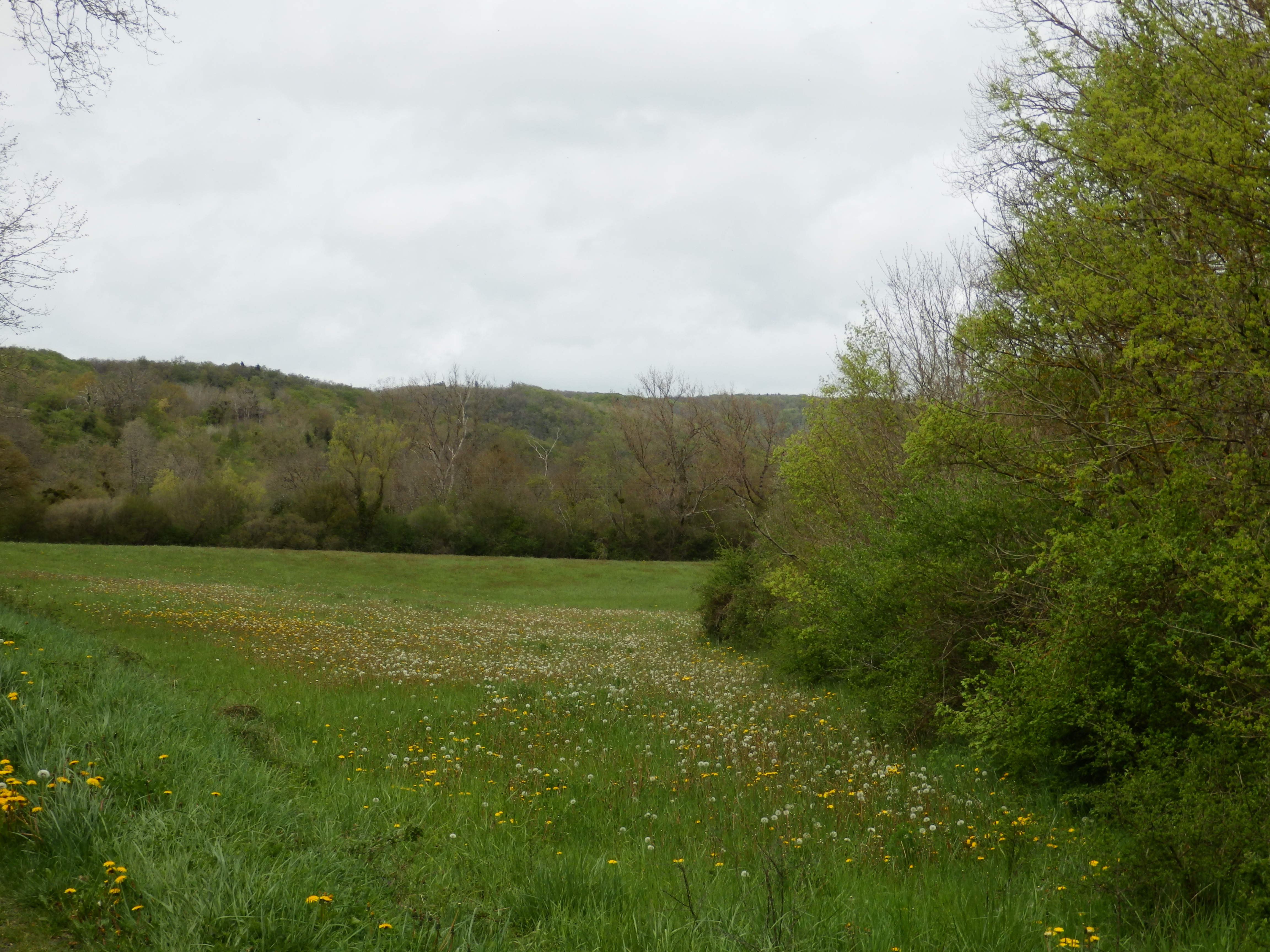 Landscape in Saint-Benoît, Aude, France